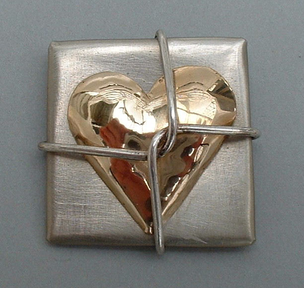 Heart pin by Bennett Graham. I am the designer of this piece. Materials: 14k gold-filled heart, sterling silver wire, nickel silver square. Created in 2001.